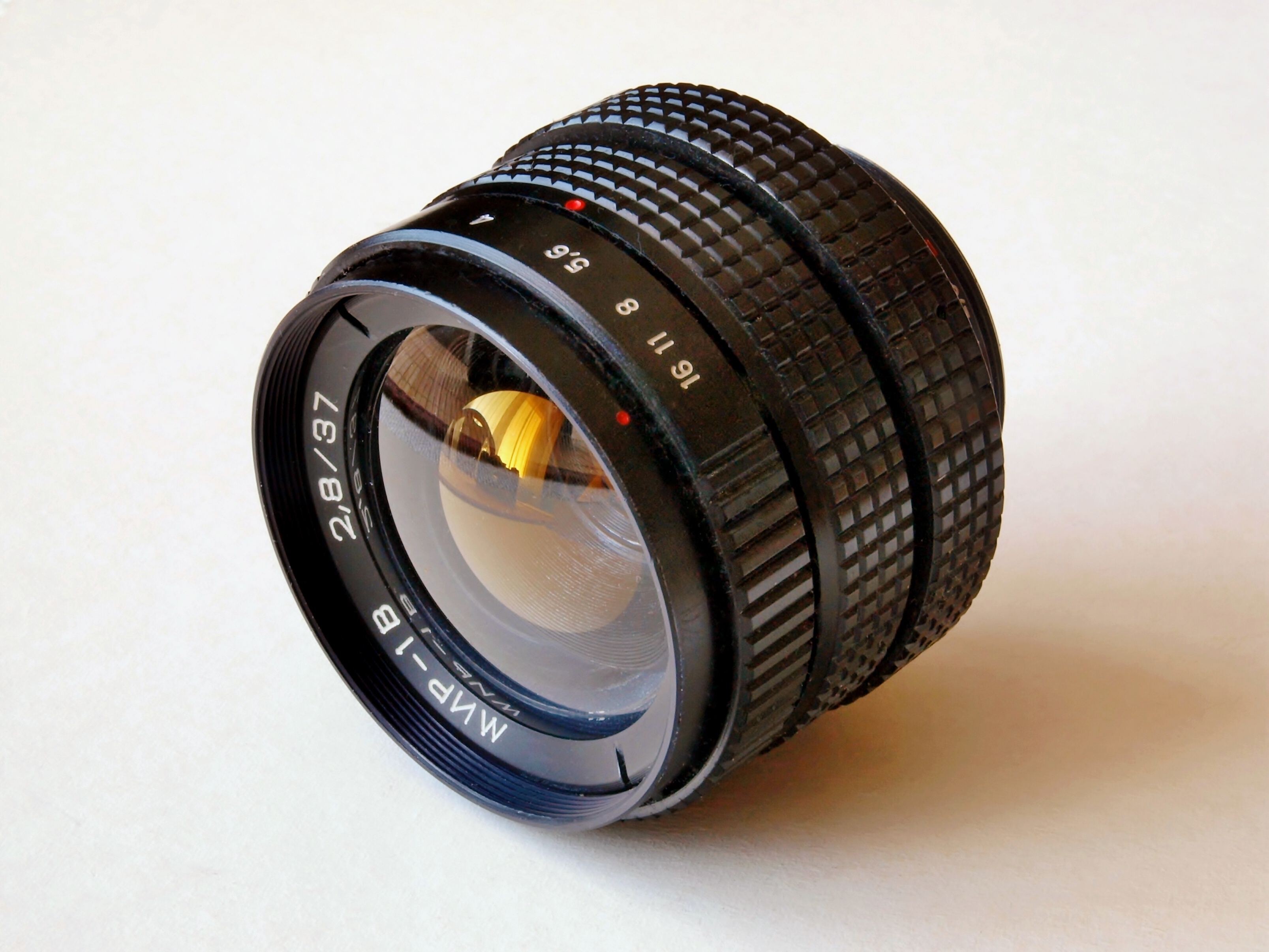 MIR 1W fixed lens made in Russia, the brightness of 2.8 focal length 37mm with thread M42. Designed for analog 35mm SLR mount screw as well as for digital SLR after using the adapter bracket.